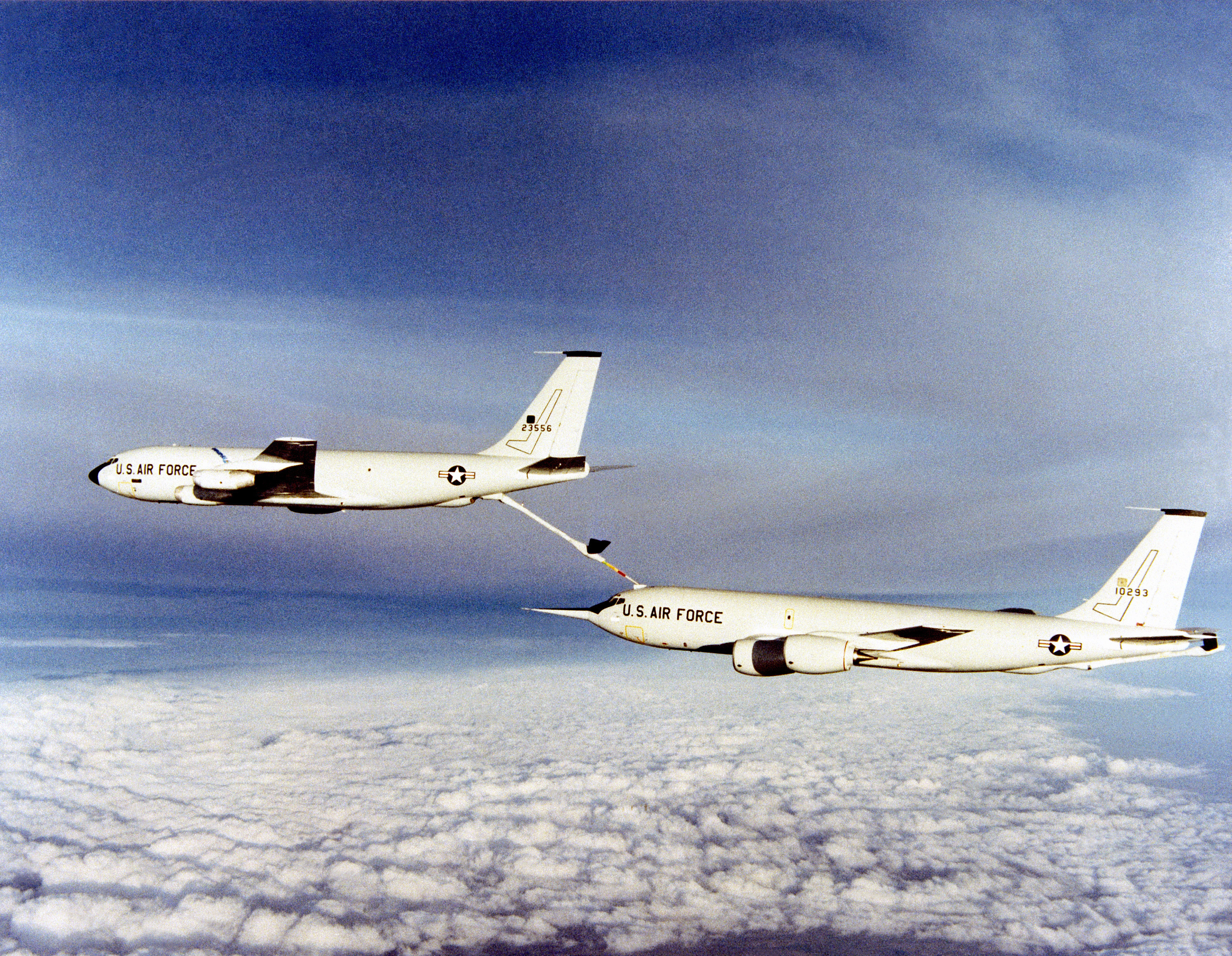 A Boeing KC-135A Stratotanker refueling the KC-135R prototype (61-0293) Original caption: A left side aerial view of a KC-135A Stratotanker aircraft refueling a KC-135A Stratotanker.